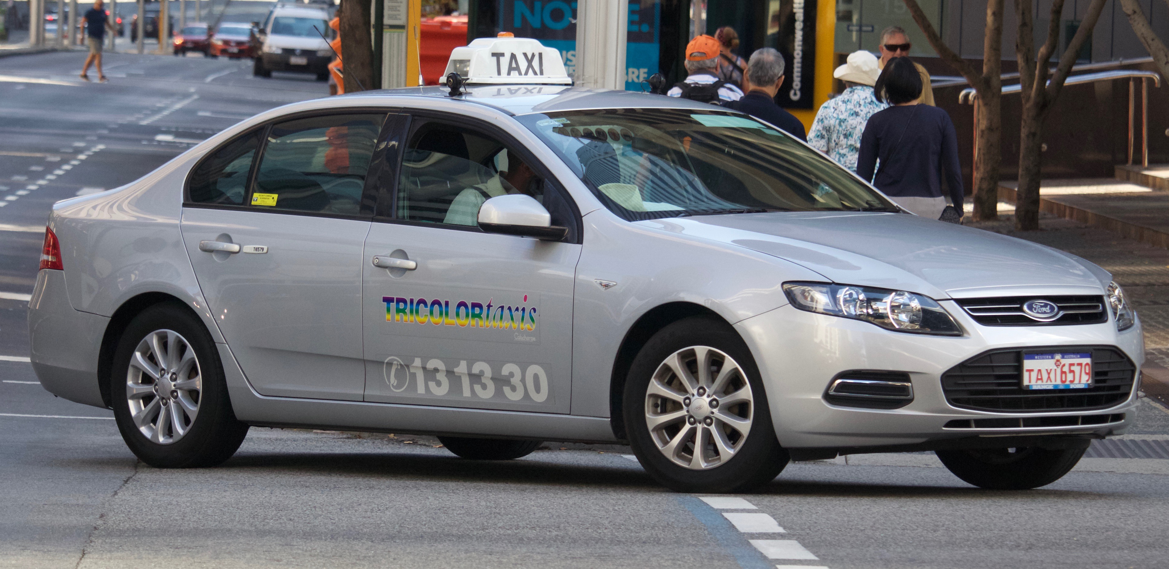 2011-2013 Ford Falcon (FG II) XT sedan, TriColor taxis. Photographed in Perth, Western Australia, Australia